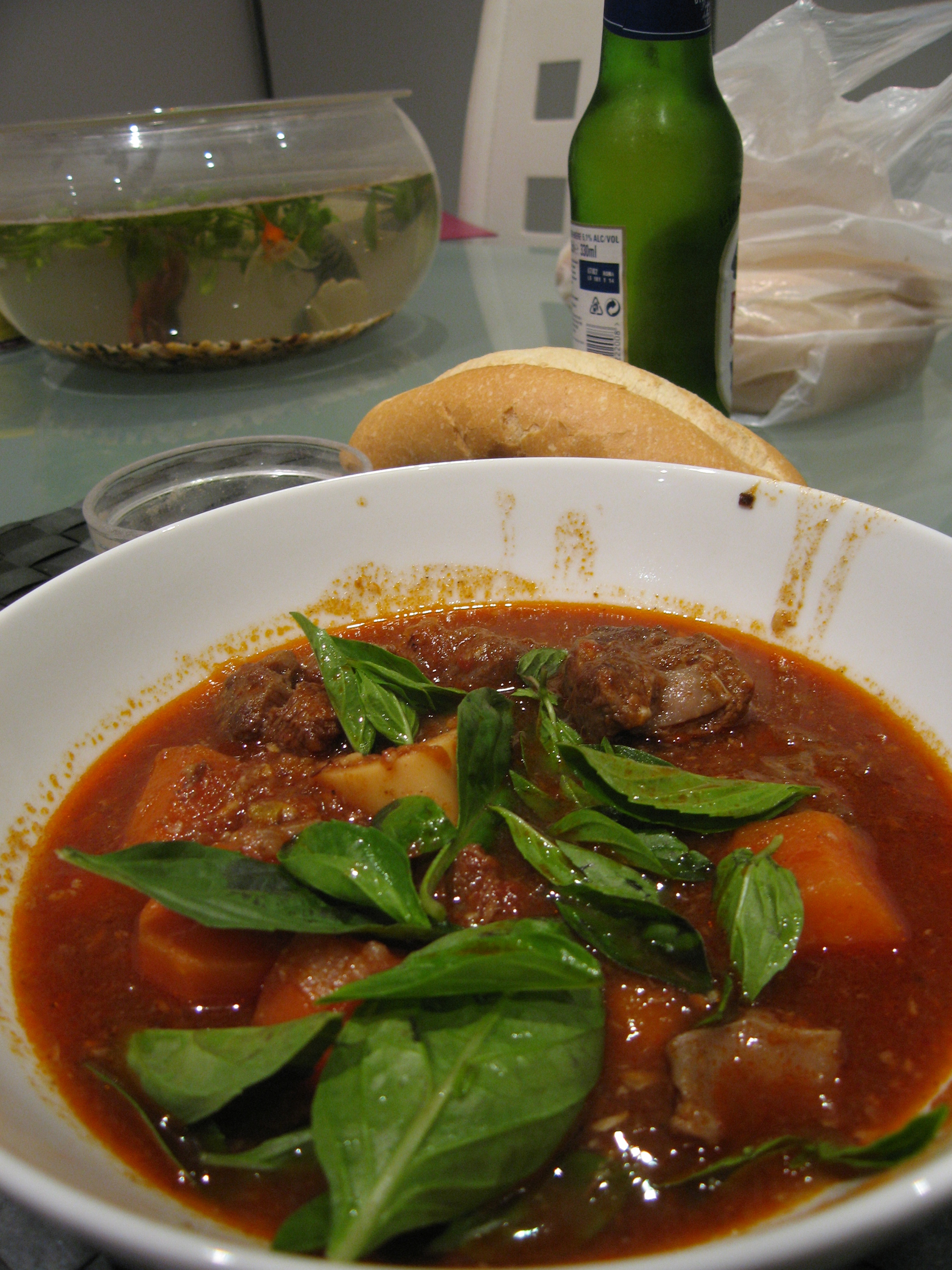 Bo Kho (beef stew)